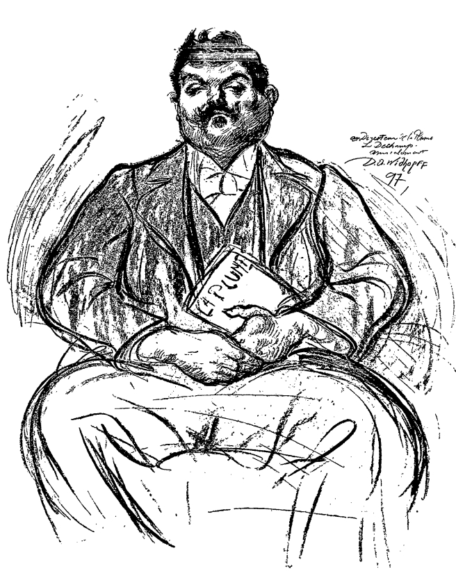 French writer, publisher and editor Léon Deschamps (1864-1899) by David Ossipovitch Widhopff (1867-1933)